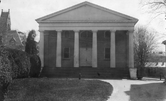 Miller Chapel at the Princeton Theological Seminary at its pre-1933 location next to Alexander Hall facing Mercer Street.